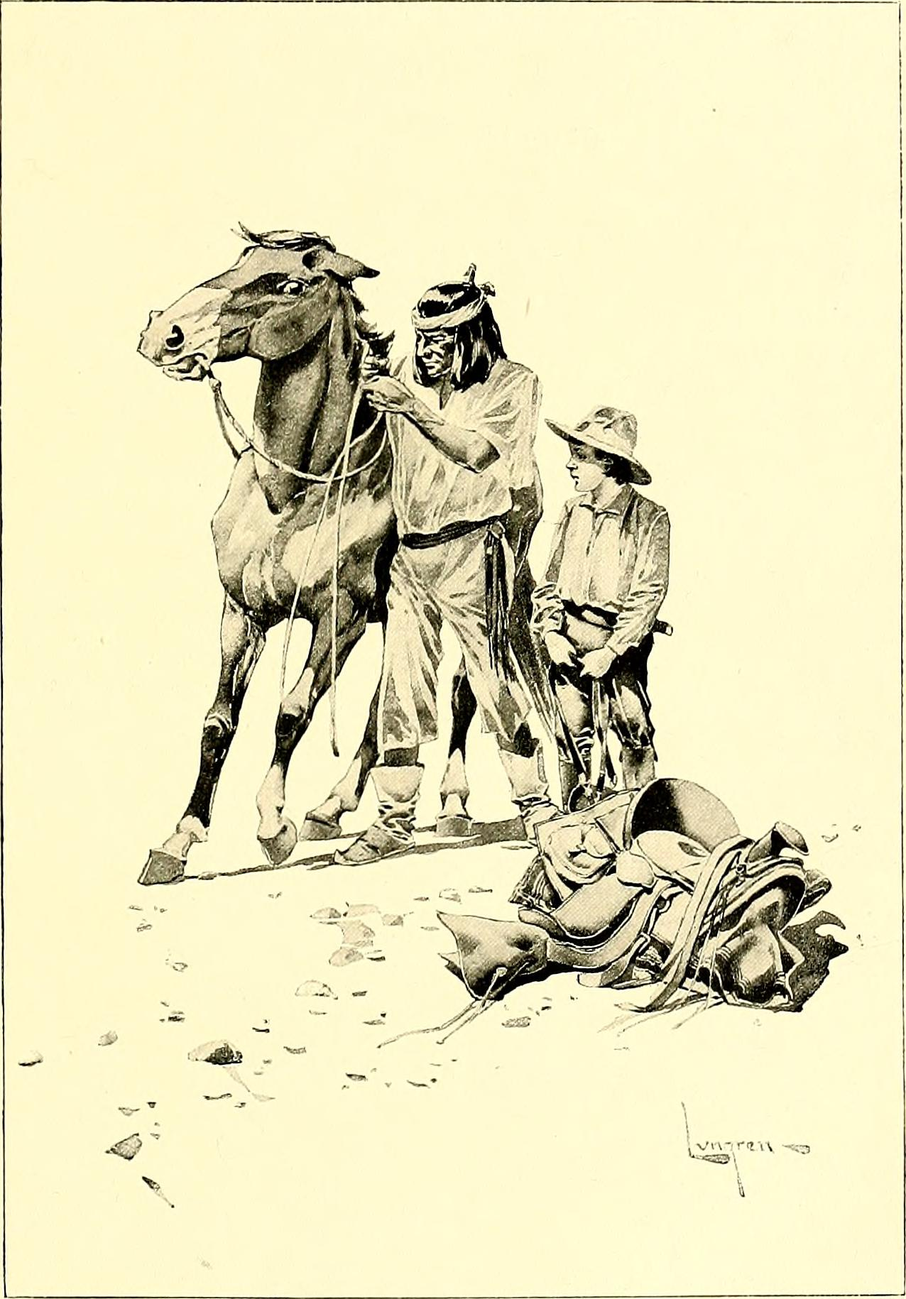 Title: St. Nicholas (serial) Year: 1873 (1870s) Authors: Dodge, Mary Mapes, 1830-1905 Subjects: Children's literature Publisher: (New York : Scribner & Co.) Text Appearing Before Image: ///; of ahorse at speed,and felt hot breathon his Hanks asthe thoroughbreddrew alongside. Not the unmus-ical cry of Tomas,not the fierceshriek of the sav-age who in theold days rode him,— neither beatingwith knotted rope,nor cruel stroke ofsharpest spur,—could have gainedfrom the broncohorse the responsehe gave to thechallenge of thethoroughbred.The big headcame down closerto the ground, thehairy ears werelaid back till themane concealedthem, and thedeeplungs laboredas, through blaz-ing nostrils, thehorse sucked inthe strong saltbreeze. The excitementof the horse tookhold of his rider.The boy settledhimself firmly inhis seat, and benthis knees till thehair-rope cut into his flesh. He wound the bridle-rein aroundhis hands, and lifted his horses head with whatstrength was in him. He forgot the pain of the stinging air, and with wide-open and un-winking eyes steadily watched the road beforehim. A misstep might mean death to the horse orhis rider—it surely meant homelessness for the Text Appearing After Image: APACHE TOMAS PREPARES TWO-EYES FOR THE RACE. little mother and the rest. As the thoughtcame to him, Felipe crouched a little lowerover the broncos neck, and watched the road